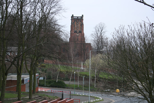 St Peter's Church Cradley, Lyde Green